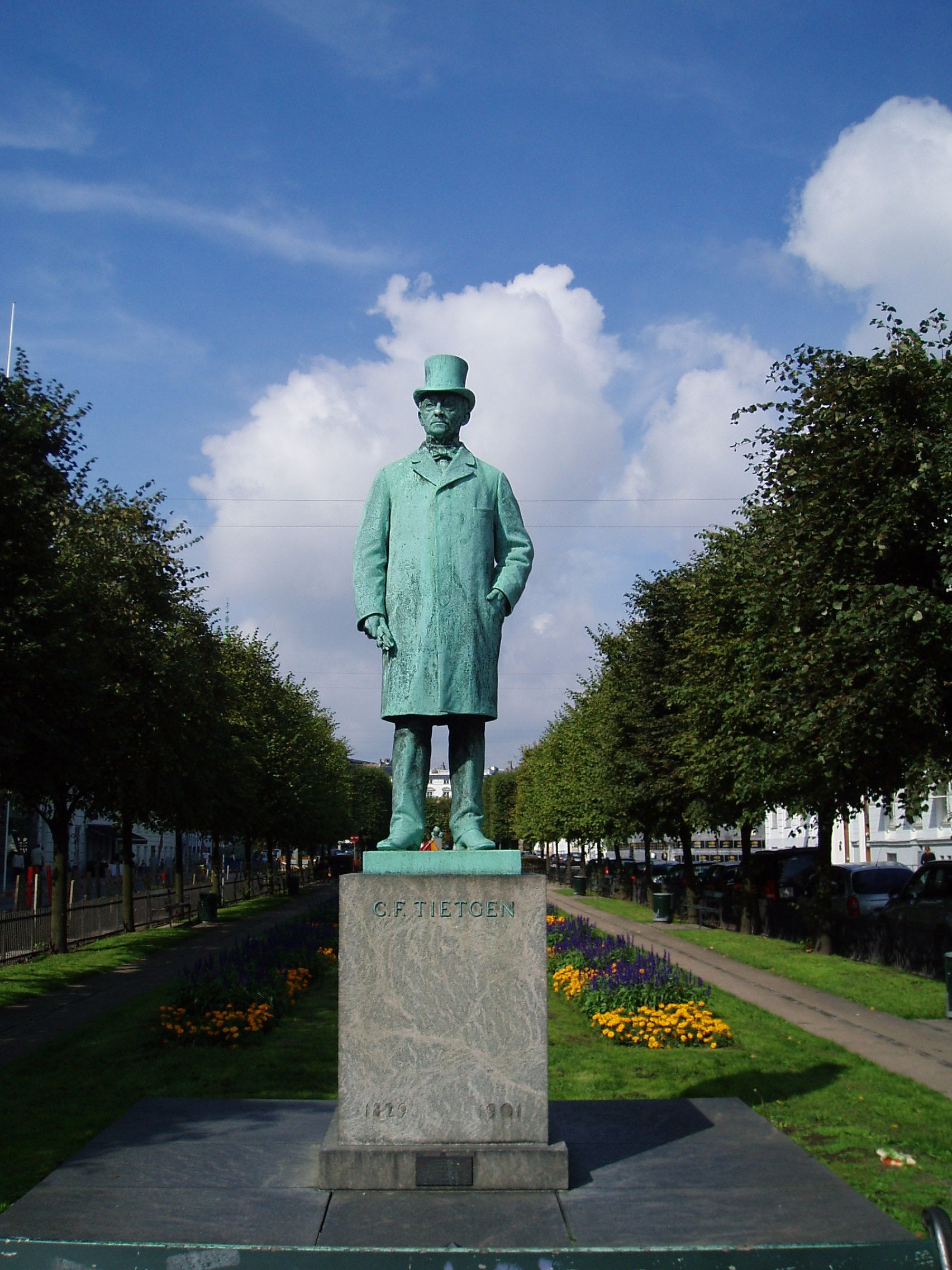 Statue of financier and industrialist Carl Frederik Tietgen (1829 - 1901). Sculptured by Rasmus Andersen (1861-1930) in 1904 and placed at Sankt Annæ Plads in central Copenhagen.